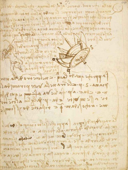 Folio 44r of the first book of the Codex Forster, a collection of Leonardo da Vinci's manuscripts. Depicted are studies of a pump for perpetual motion. The Codex Forster is held by the Victoria and Albert Museum.